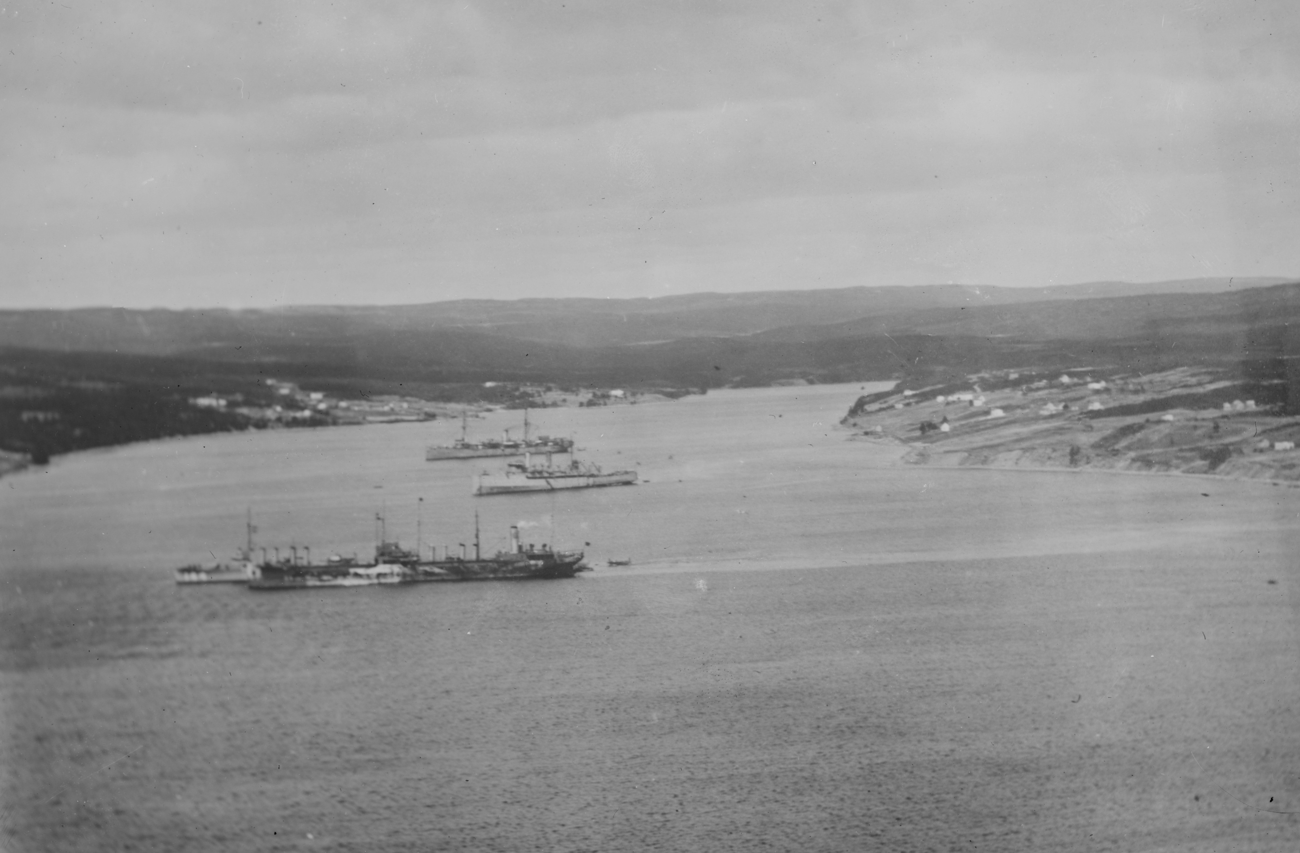 U.S. Navy ships in Trepassey Bay, Newfoundland, Canada. The picture was most probably taken in May 1919 on occasion of the transatlantic flight of the U.S. Navy Curtiss NC seaplanes. The still camouflaged oiler in the foreground would then be USS Hisko (ID 1953) with the destroyer USS Upshur (DD-144), and another one hidden behind Hisko. Behind the oiler is the minelayer USS Aroostook (CM-3), which operated as a seplane tender for the four NC flying boats. The last ship visible is a destroyer tender.